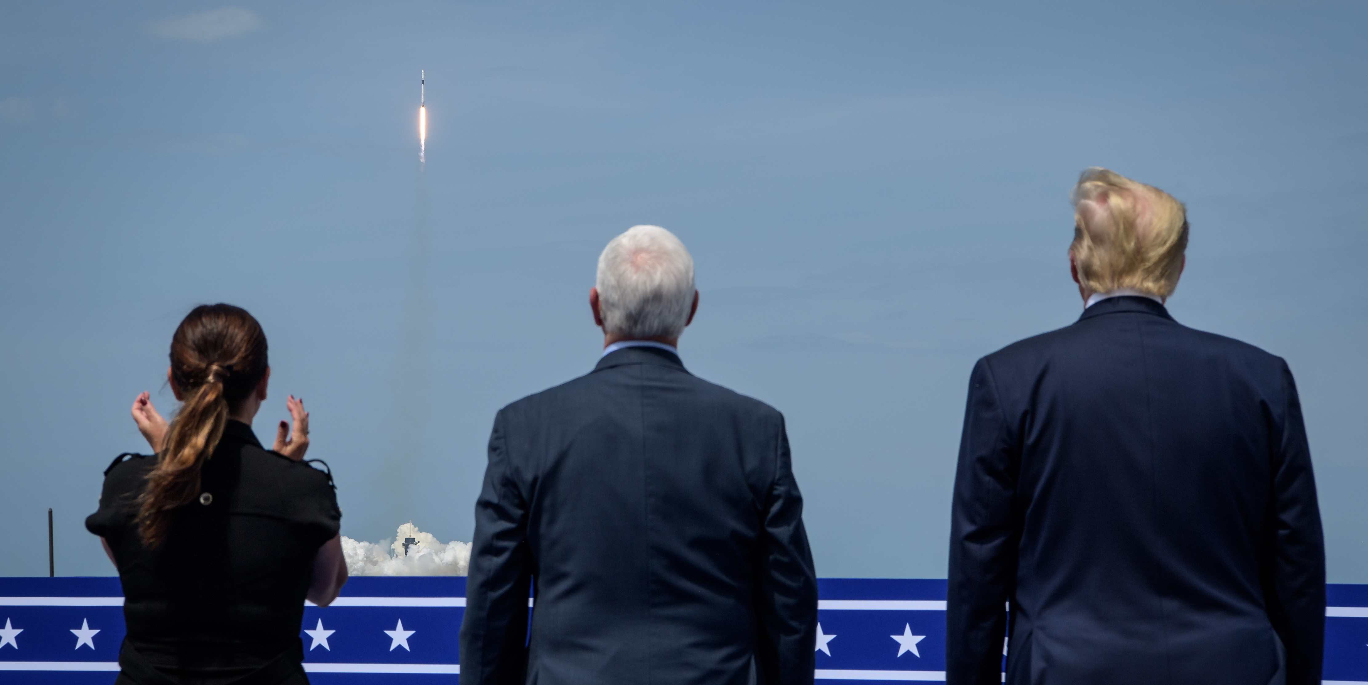 President Donald Trump, right, Vice President Mike Pence, and Second Lady Karen Pence watch the launch of a SpaceX Falcon 9 rocket carrying the company's Crew Dragon spacecraft on NASA’s SpaceX Demo-2 mission with NASA astronauts Robert Behnken and Douglas Hurley onboard, Saturday, May 30, 2020, from the balcony of Operations Support Building II at NASA’s Kennedy Space Center in Florida. NASA’s SpaceX Demo-2 mission is the first launch with astronauts of the SpaceX Crew Dragon spacecraft and Falcon 9 rocket to the International Space Station as part of the agency’s Commercial Crew Program. The test flight serves as an end-to-end demonstration of SpaceX’s crew transportation system. Behnken and Hurley launched at 3:22 p.m. EDT on Saturday, May 30, from Launch Complex 39A at the Kennedy Space Center. A new era of human spaceflight is set to begin as American astronauts once again launch on an American rocket from American soil to low-Earth orbit for the first time since the conclusion of the Space Shuttle Program in 2011.